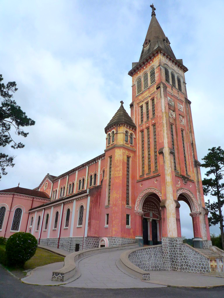 Cathedral of Dalat.